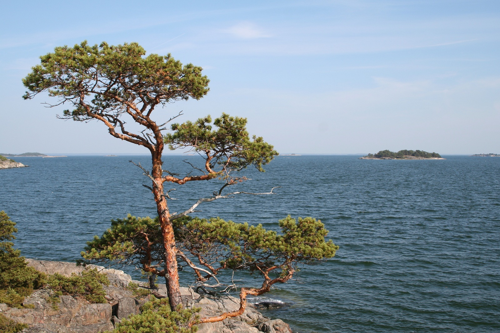 A view of Turku Archipelago, from the south side of small island of Gullkrona